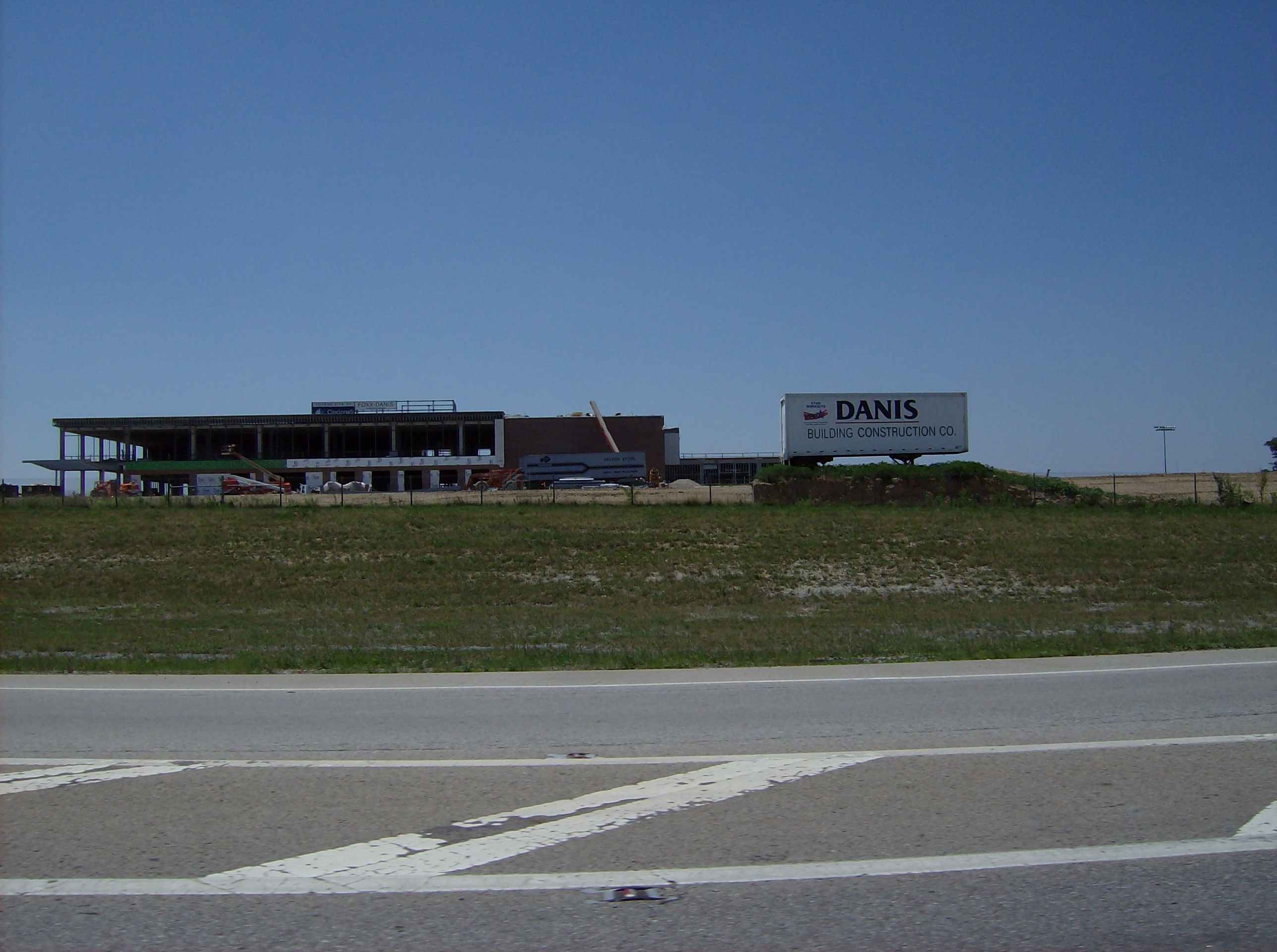 Construction site in southeastern Liberty Township, Butler County, Ohio, Butler County, Ohio, Ohio, United States, typical of the township's rapid development. Picture taken westward from Interstate 75.